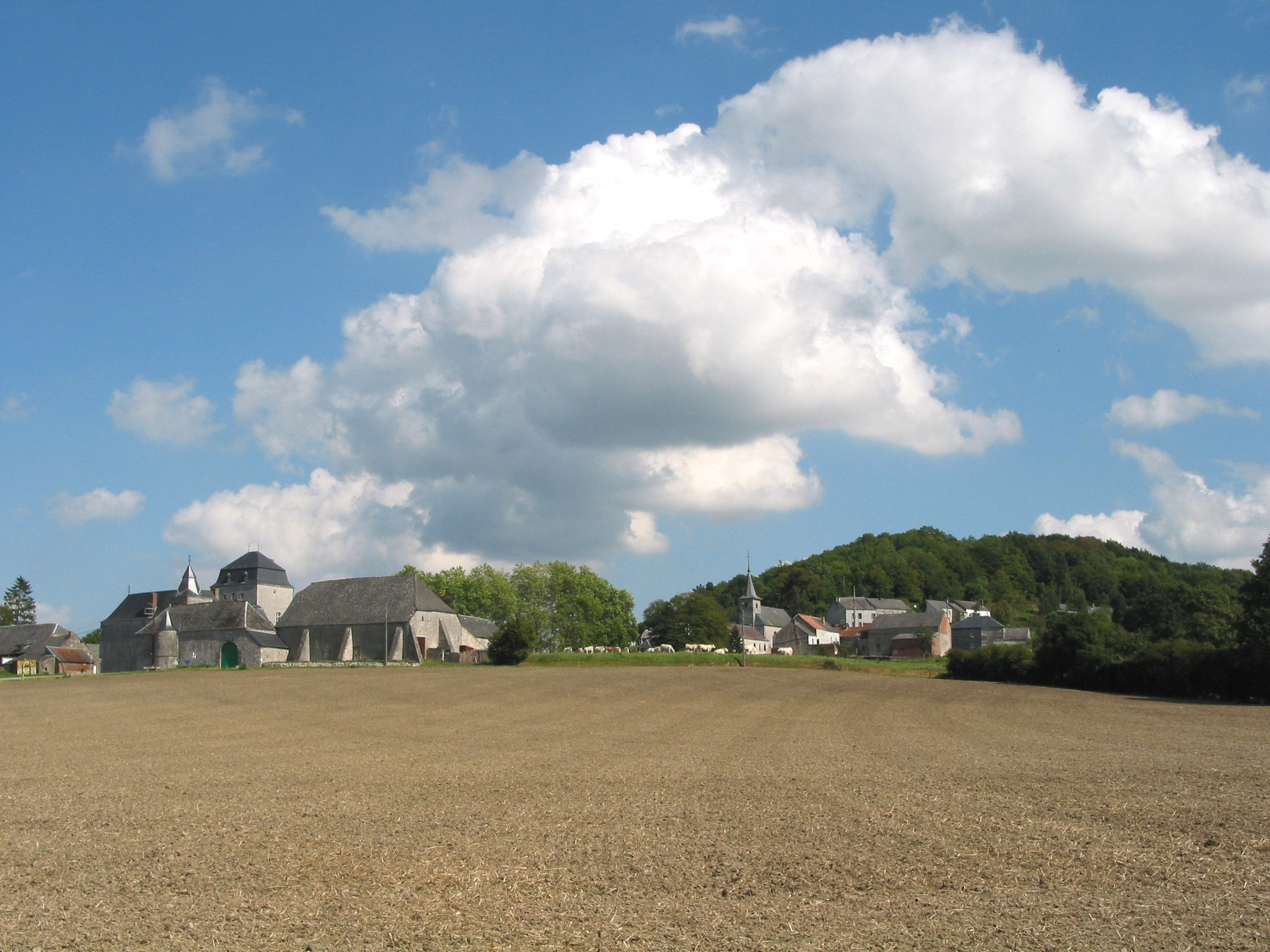 Roly (Belgium), the village and the Roly Lords farm-castle (XIV/XVIth centuries).